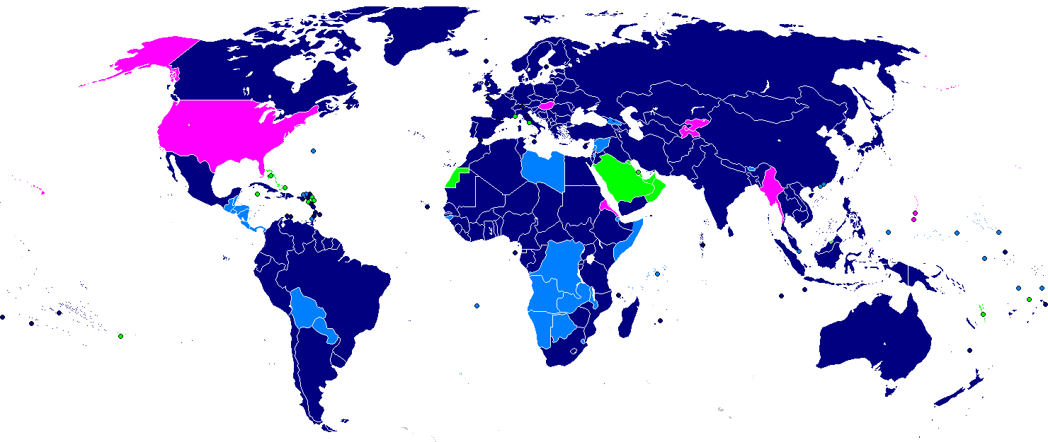 Systems of taxation on individuals No income tax on individuals Territorial taxation (tax on local income of individuals) Residence-based taxation (tax on local income of individuals, and on foreign income of residents) Citizenship-based taxation (tax on local income of individuals, on foreign income of residents, and on foreign income of nonresident citizens)